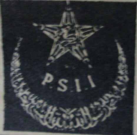 election symbol on 1955 ballot paper